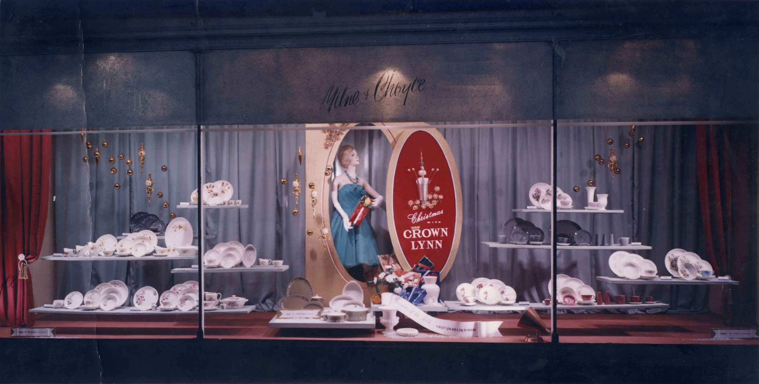 An image of a window display at Milne and Choyce of Crown Lynn ceramics. 1960-66